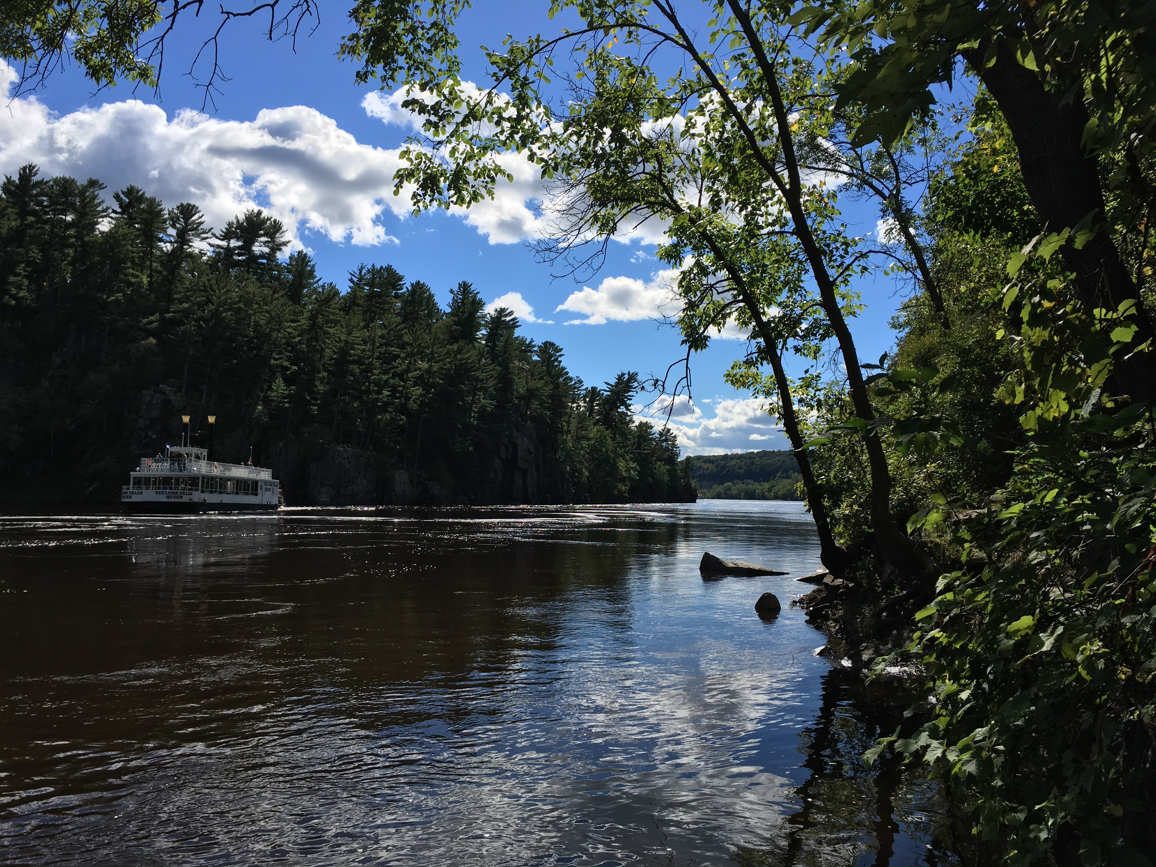 View of the St Croix river near Taylors Falls, on the Minnesota-side of the river. The boat seen here is a tourist boat.